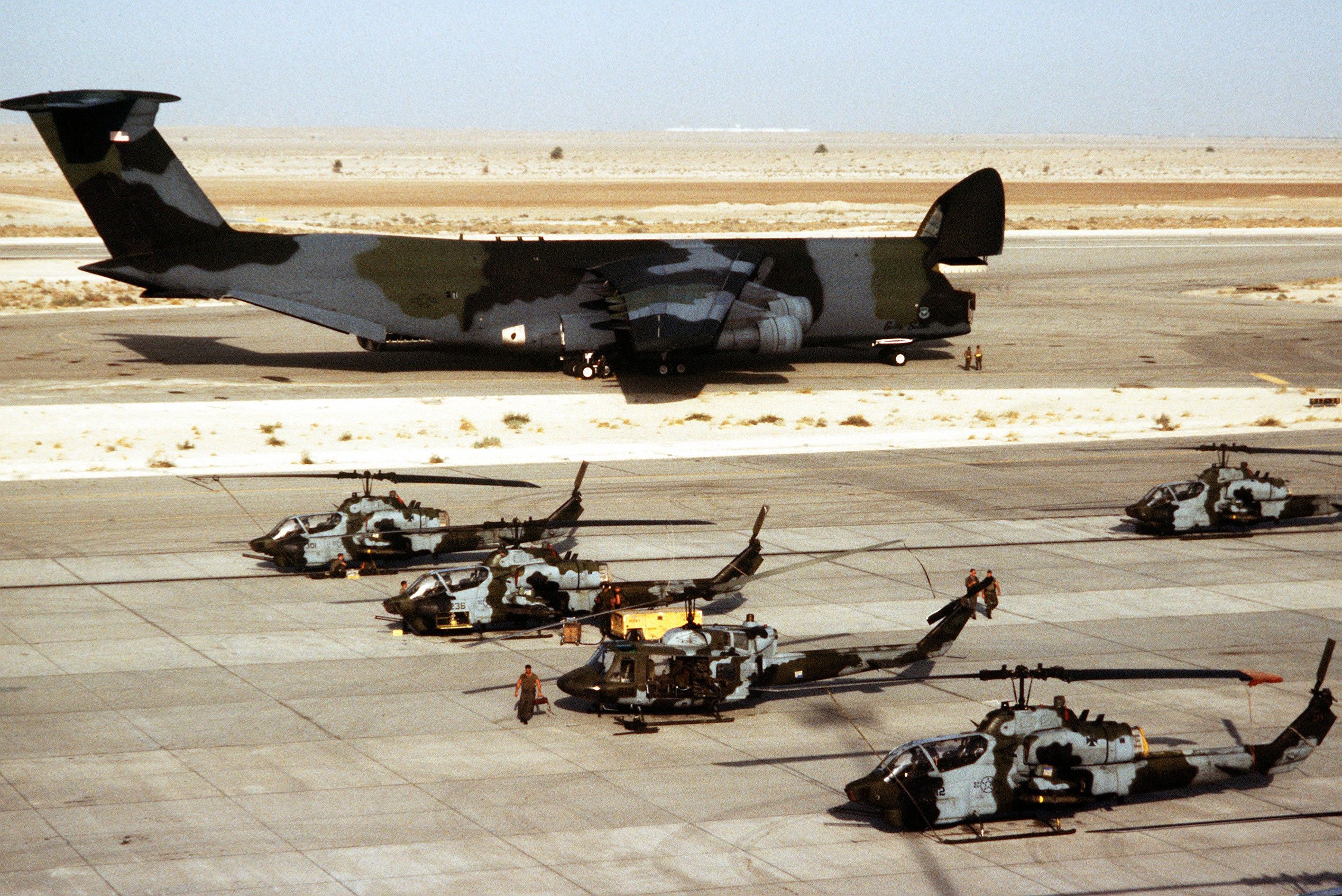 U.S. Marine Corps Bell AH-1 Sea Cobra helicopters and a Bell UH-1N Twin Huey helicopter are parked on the flight line as a U.S. Air Force C-5A Galaxy aircraft stands by after unloading supplies during Operation Desert Shield on 23 January 1991.